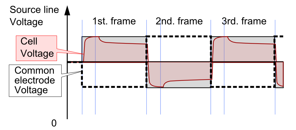 LCD Panel drive (Active, Voltage Common toggle)